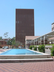 USC Rossier School of Education